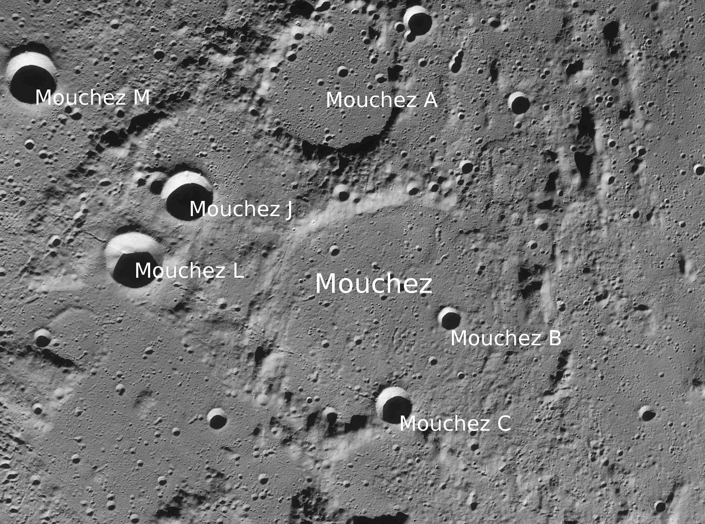 Moon crater Mouchez with satellite features (north at top; detail of LRO - WAC north pole mosaic)